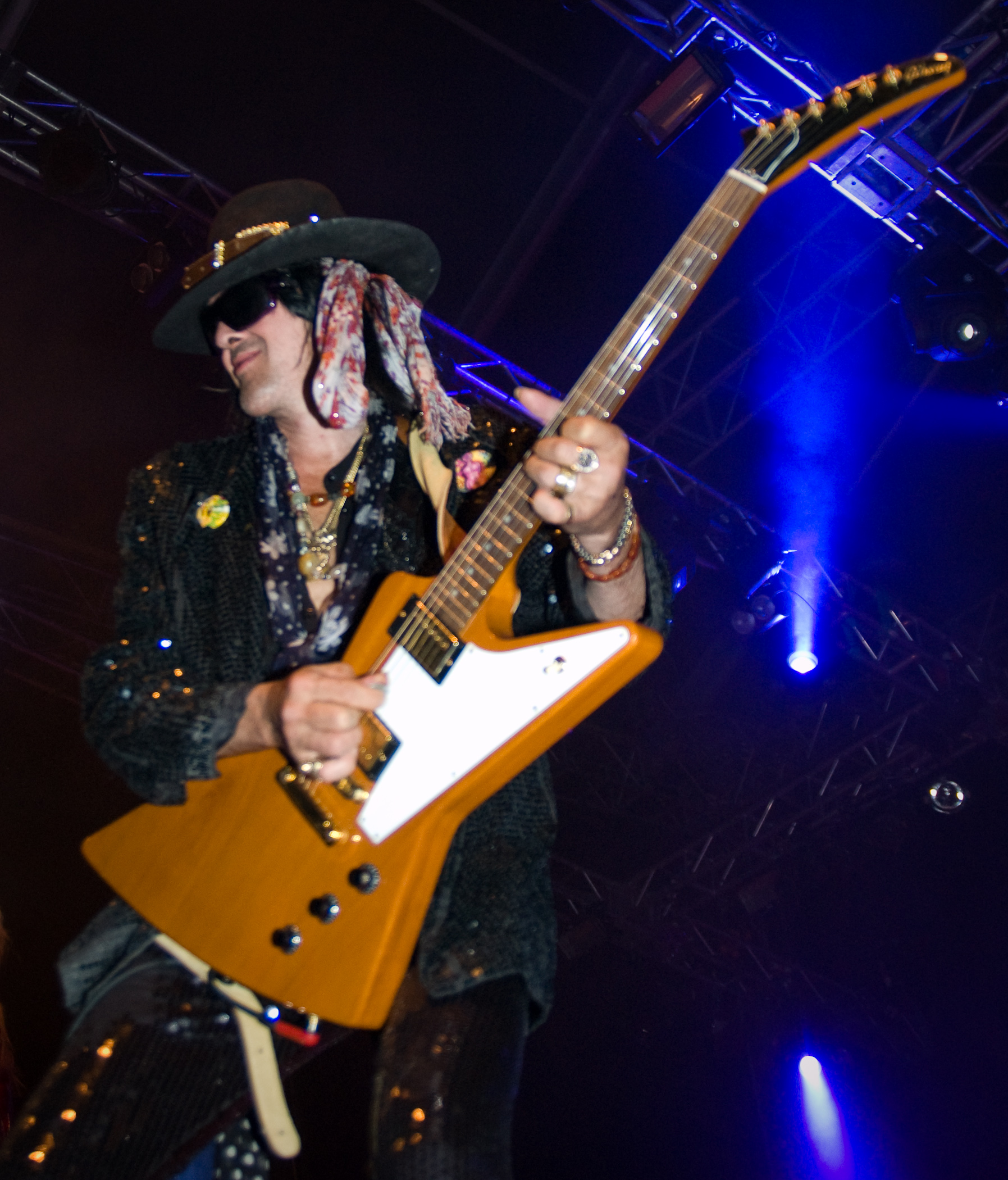 Guitarist Andy McCoy of Hanoi Rocks performing at the Ilosaarirock festival on the 11th of July 2008 in Joensuu, Finland.